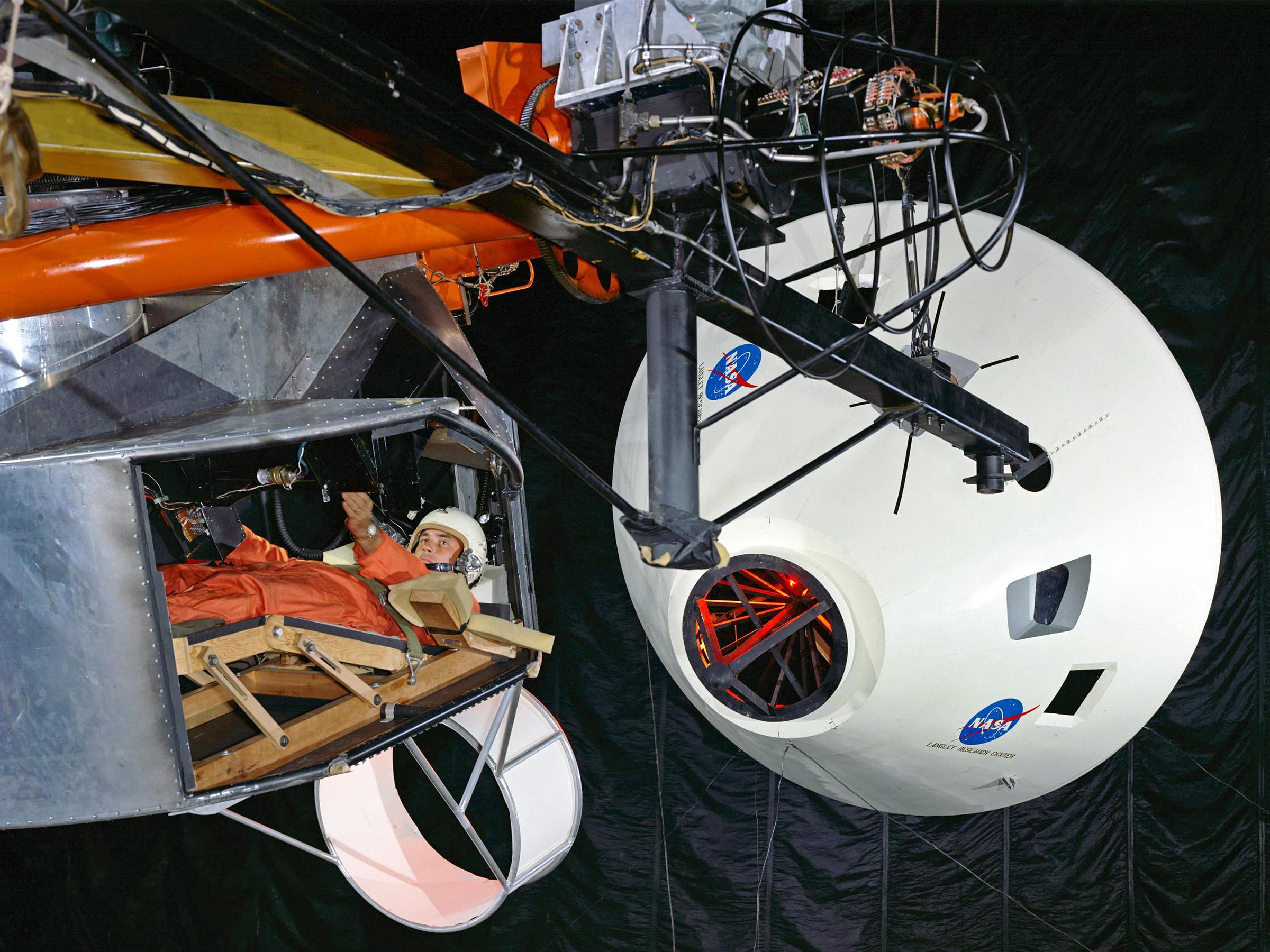 Langley researchers built the Rendezvous Docking Simulator giving astronauts a routine opportunity to pilot dynamically-controlled scale-model vehicles in an environment that closely paralleled that of space. NASA Image Number EL-2001-00448